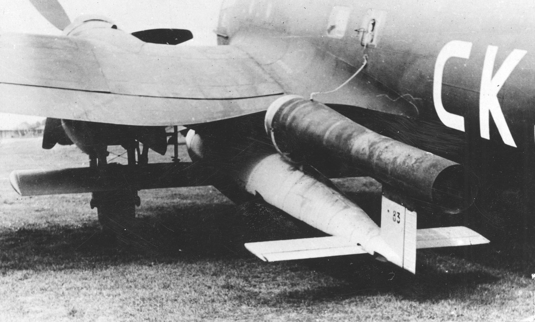 A German Luftwaffe Heinkel He 111 H-22. This version could carry FZG 76 (V1) flying bombs, but only a few aircraft were produced in 1944. Some were used by bomb wing KG 3. Original caption: "A V-1 mounted on an He 111 bomber for air-launching. This program was unsuccessful. (U.S. Air Force photo)"